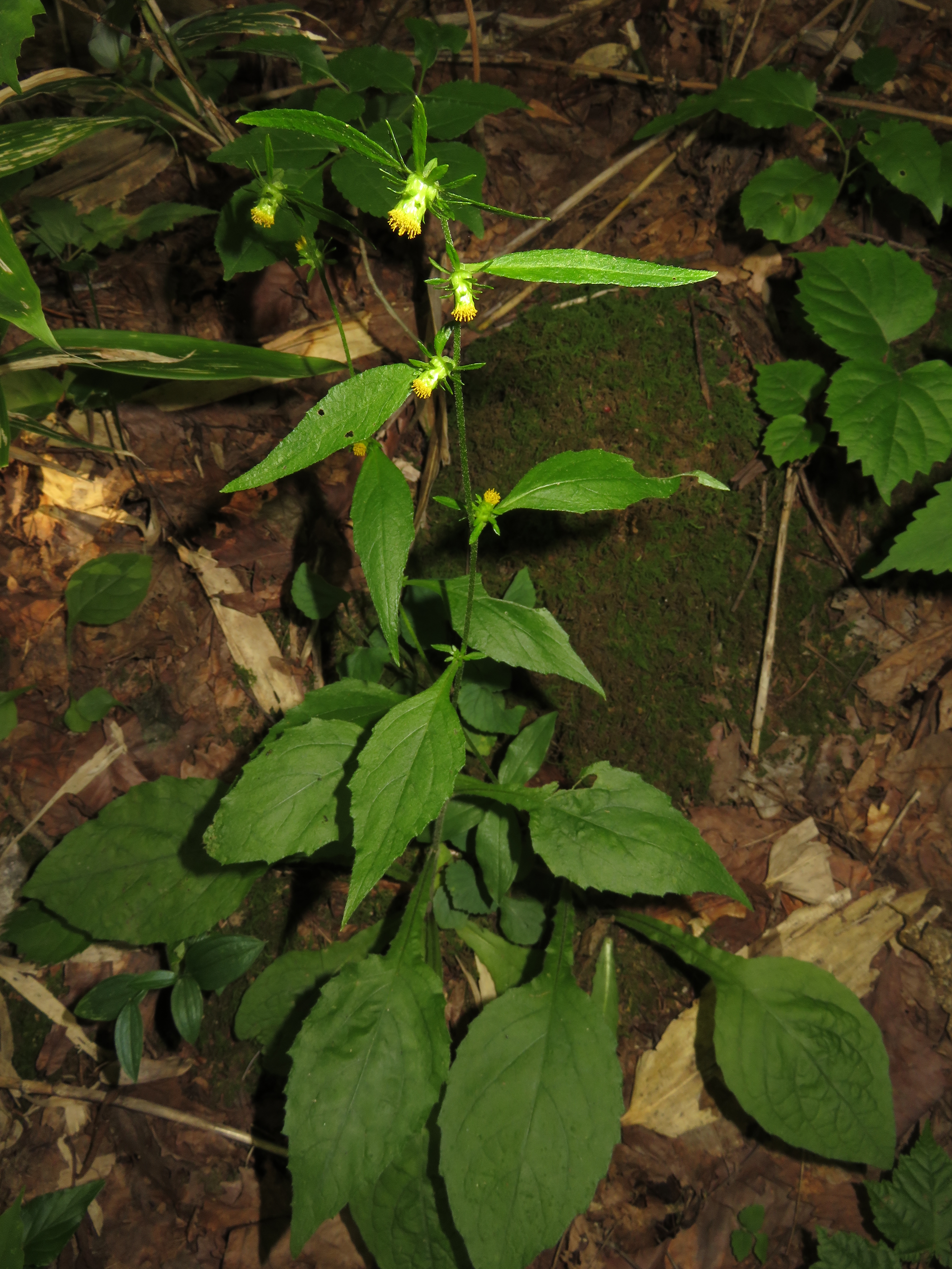 Carpesium triste, Takizawa city, Iwate pref., Japan